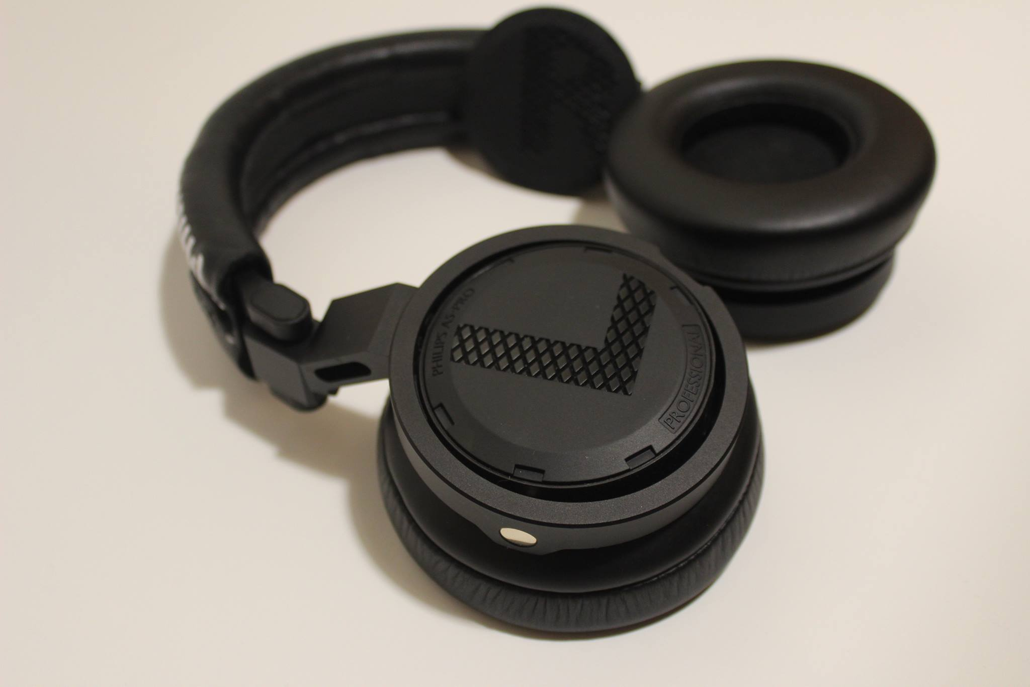 Shows a picture taken of the DJ headphones made by Philips. These are designed by Armin Van Buuren. Model: Philips A5-PRO